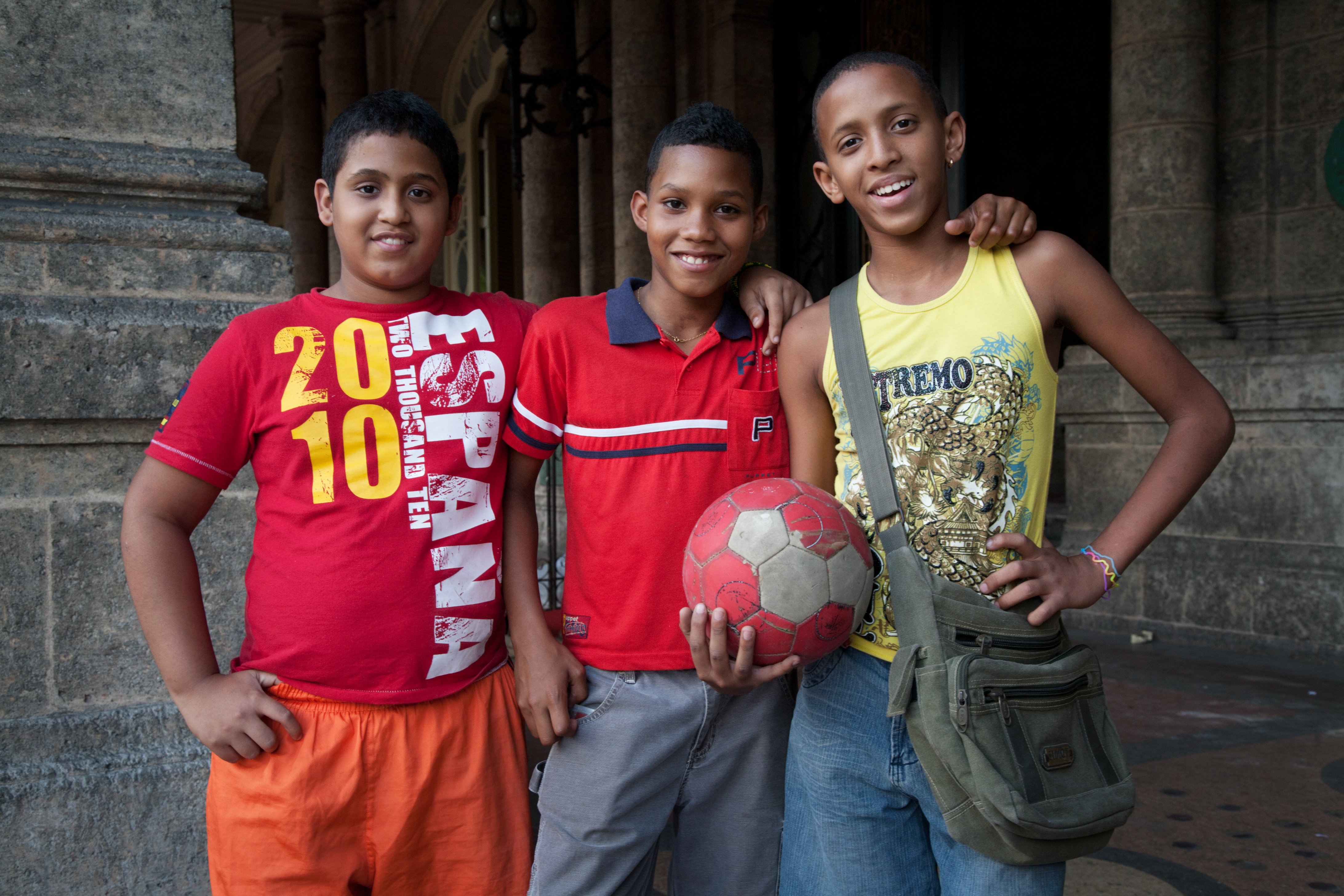 Three good friends. Havana (La Habana), Cuba